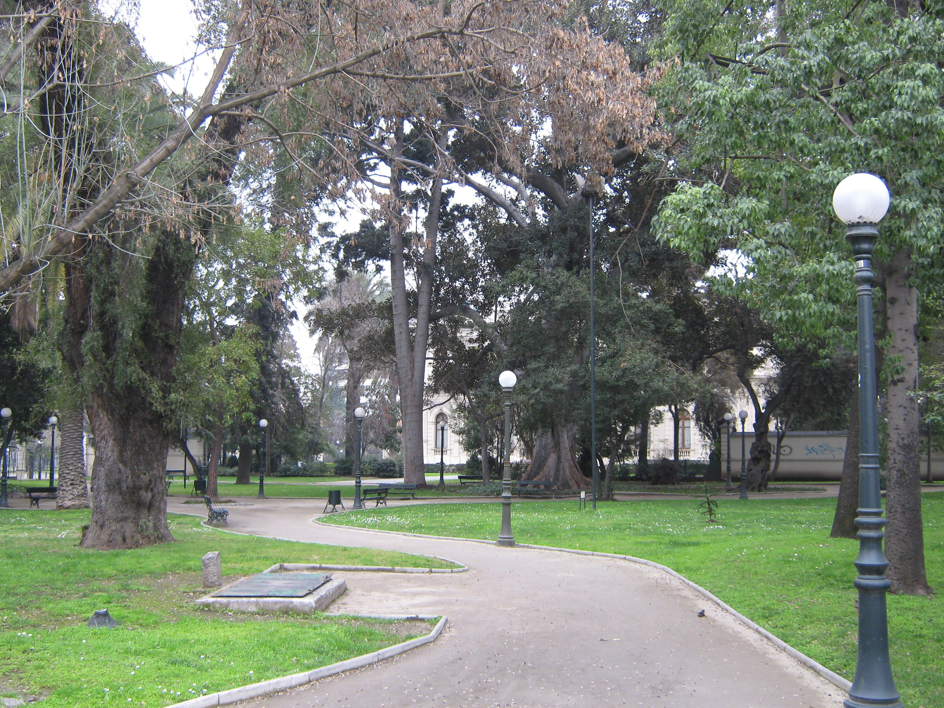 gardens in Palacio Cousiño